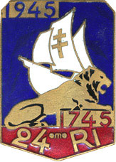 Regimental badge of the 24th Infantry Regiment (1945 France).